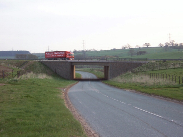 A6 Underpass at Shap. A couple of miles north of Shap village, this underpass takes the A6 trunk road under the M6 motorway.